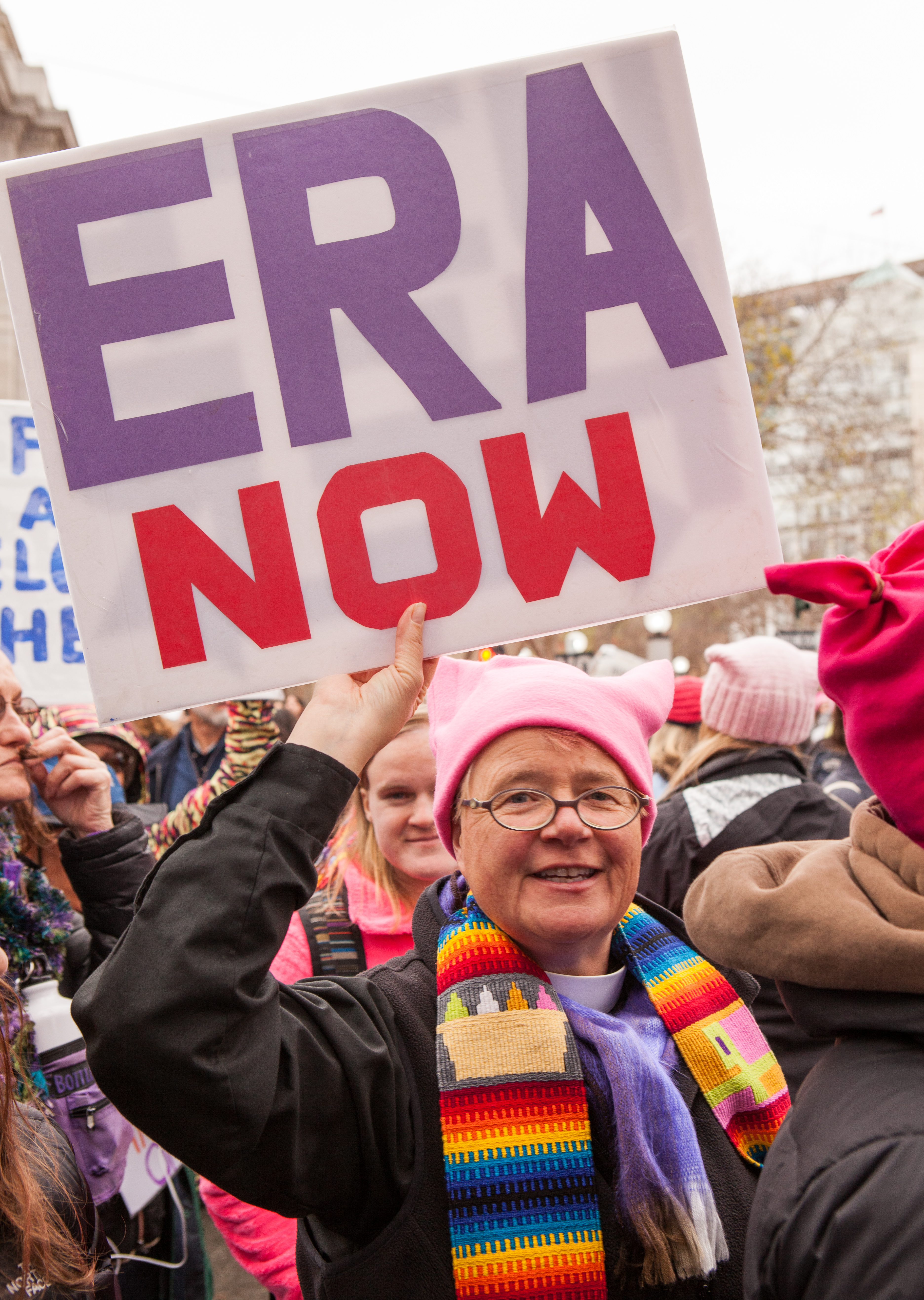 A San Francisco Women's March participant holds a sign reading "ERA Now".